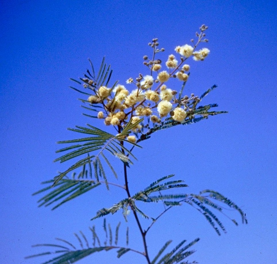 Guajillo. Branch. North of Del Rio, TX, USA.